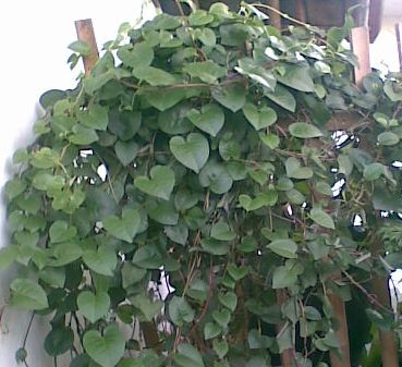 Binahong at my own backyard.